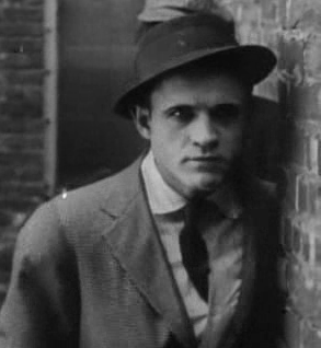 Elmer Booth, actor.